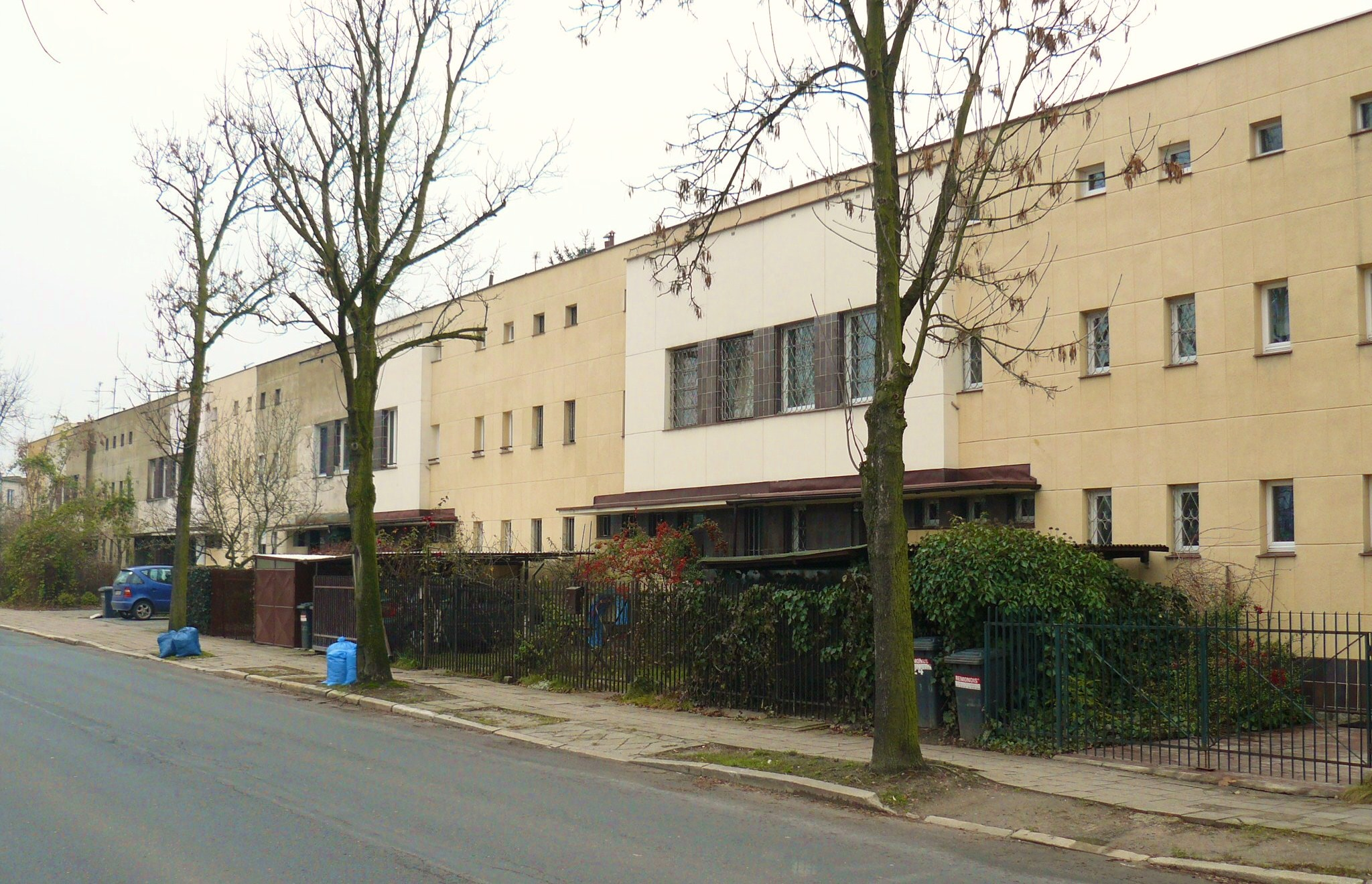 Promienista Street, Poznan. 1937-1939.